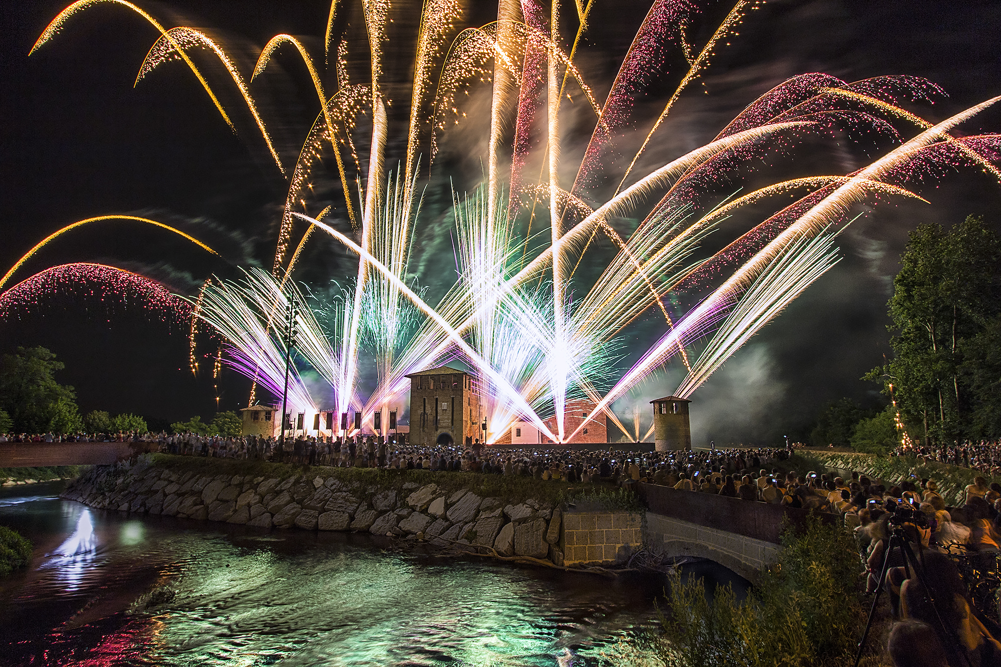 Castello in festa - Legnano This is a photo of a monument which is part of cultural heritage of Italy.